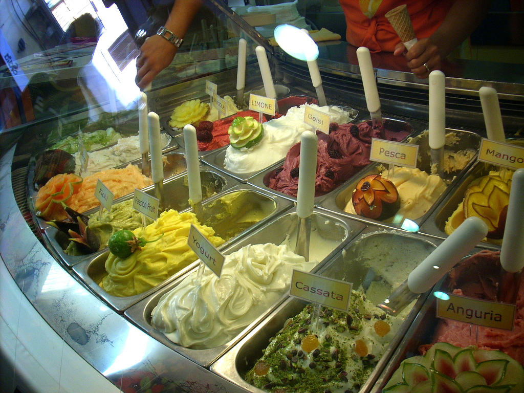 Look at the fruit carvings--edible art! Wouldn't it be nice if some of OUR ice cream shops would do that.